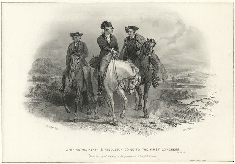 "Washington, Henry & Pendleton going to the First Congress," lithograph by Henry Bryan Hall, showing George Washington, Patrick Henry and Edmund Pendleton traveling from Virginia to the First Continental Congress at Philadelphia. Image courtesy of the New York Public Library Digital Collection.